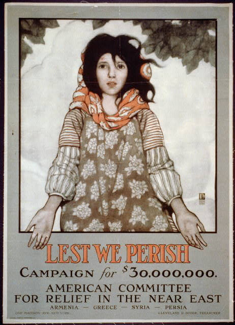 Lest we perish Campaign for $30,000,000 ; American Committee for Relief in the Near East ; Armenia - Greece - Syria - Persia